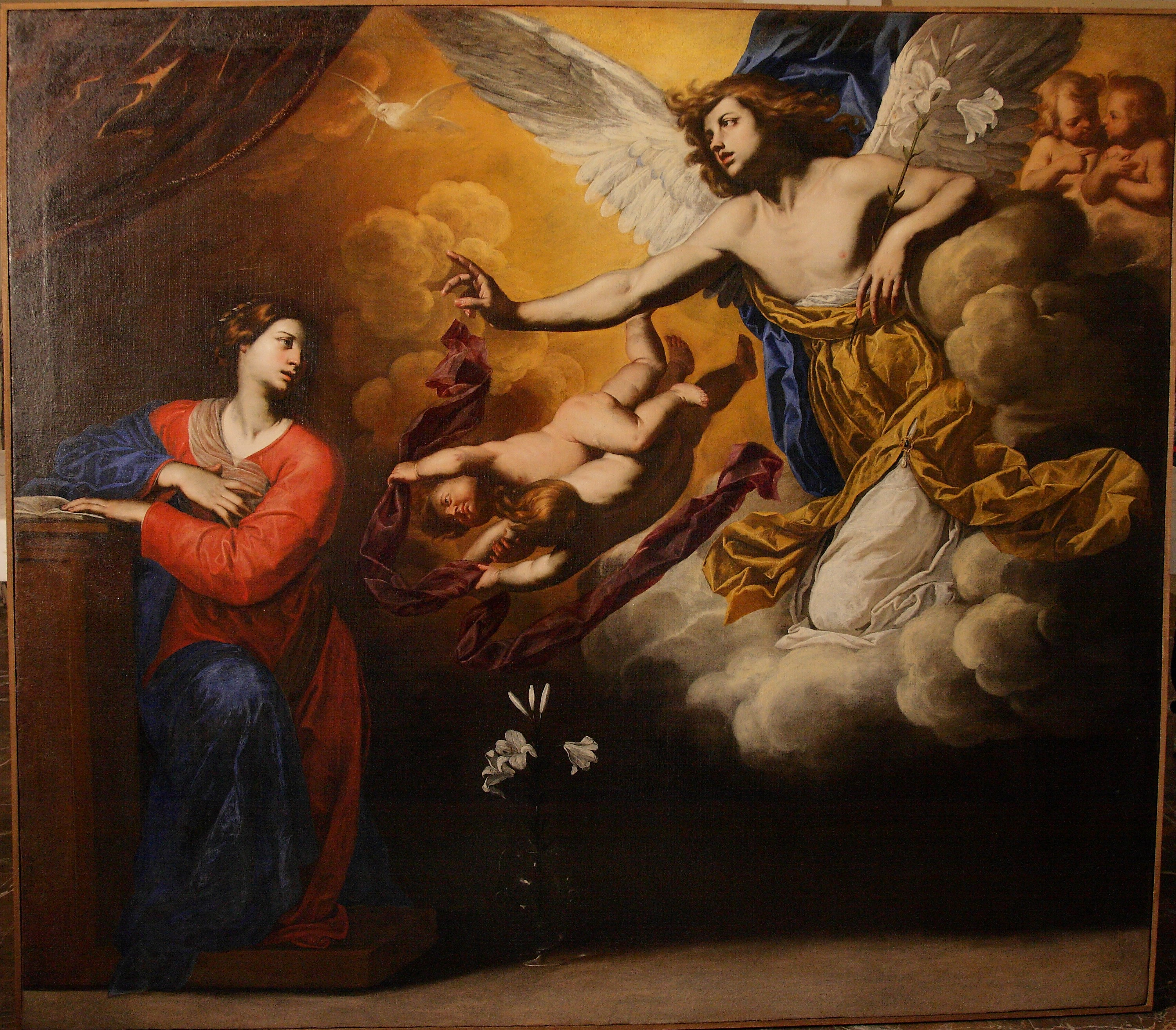 Onofrio Palumbo, Annunciazione, 1641, olio su tela, cm 200x245, Napoli, chiesa di Santa Maria della Salute.